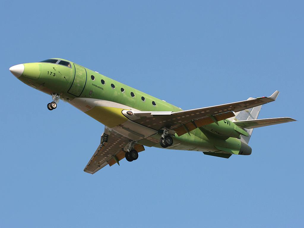 Gulfstream G200 at Ben Gurion International.